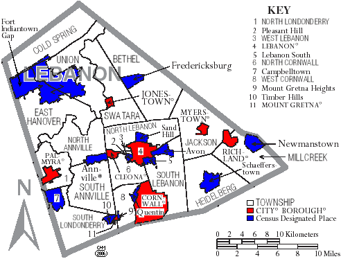 Map of Lebanon County, Pennsylvania, United States with township and municipal boundaries